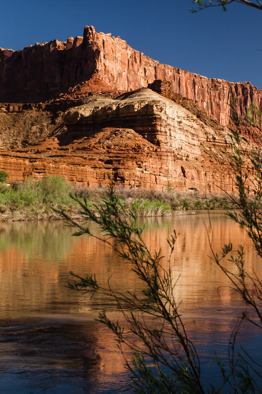 White Rim Road - Day 4